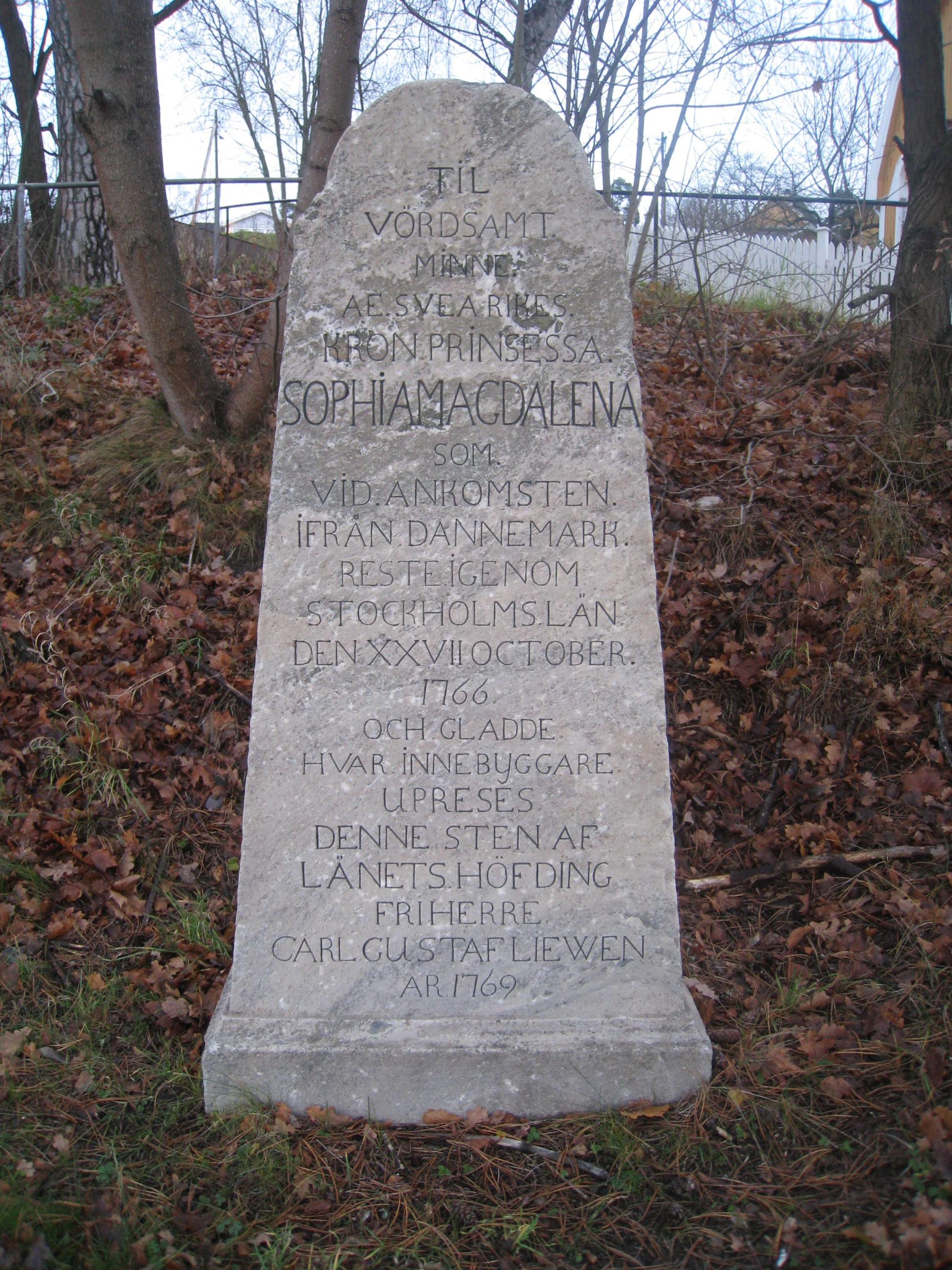 Minnesstenarna vid Enköpingsvägen i Stäket, Järfälla kommun, Stockholms län. Minnesstenarna står vid gångvägen upp mot berget. Den vänstra stenen berättar om prins Adolf Fredriks gifte med prinsessan Lovisa Ulrika 1744 och den högra stenen berättar om deras äldste son, den blivande kung Gustav III som gifte sig med den dansa prinsessan Sophia Magdalena 1766. Minnesstenarna är skyddade enligt lag och har nr 164 i Riksantikvarieämbetets fornminnesregister för Järfälla socken.